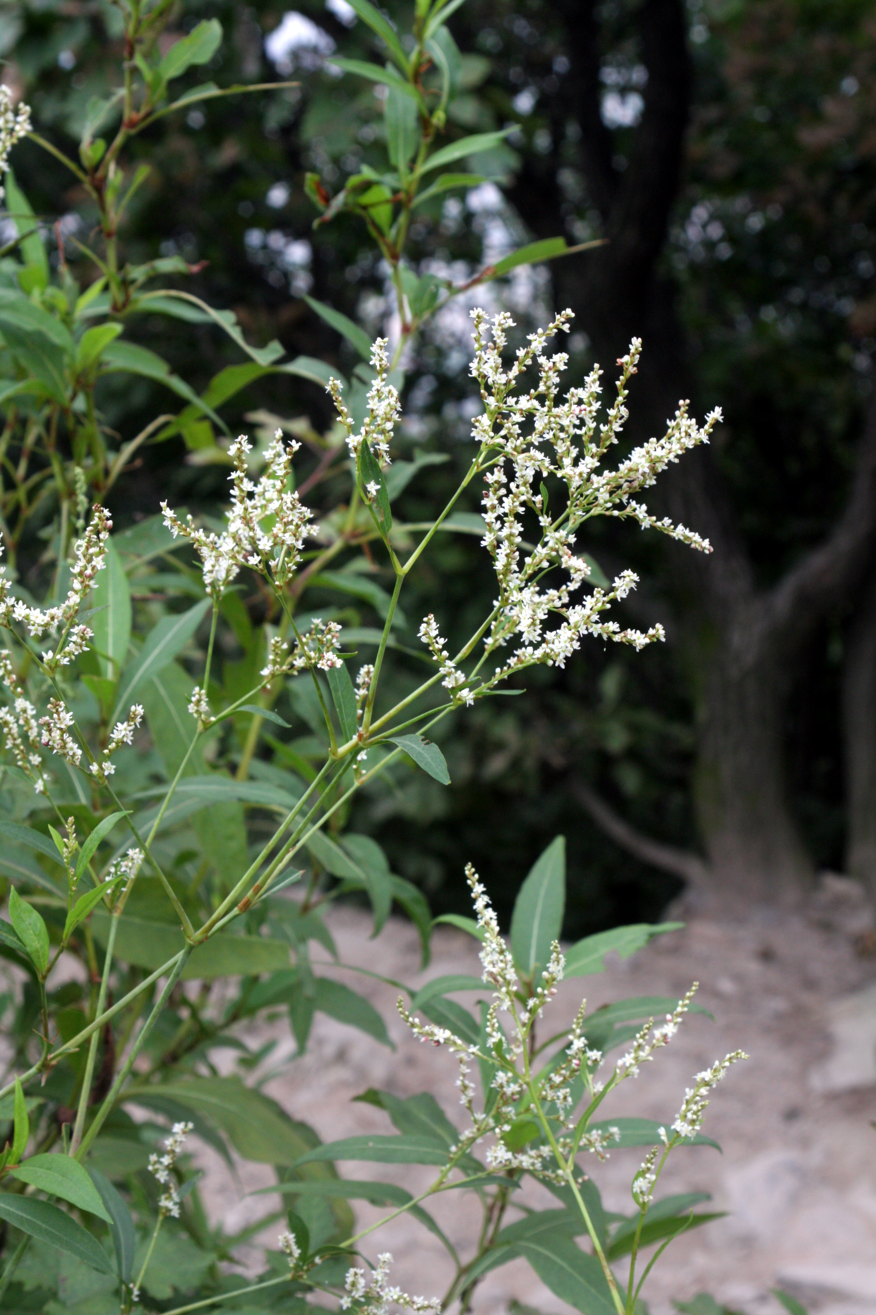 Aconogonon alpinum in Gyeyangsan, Korea